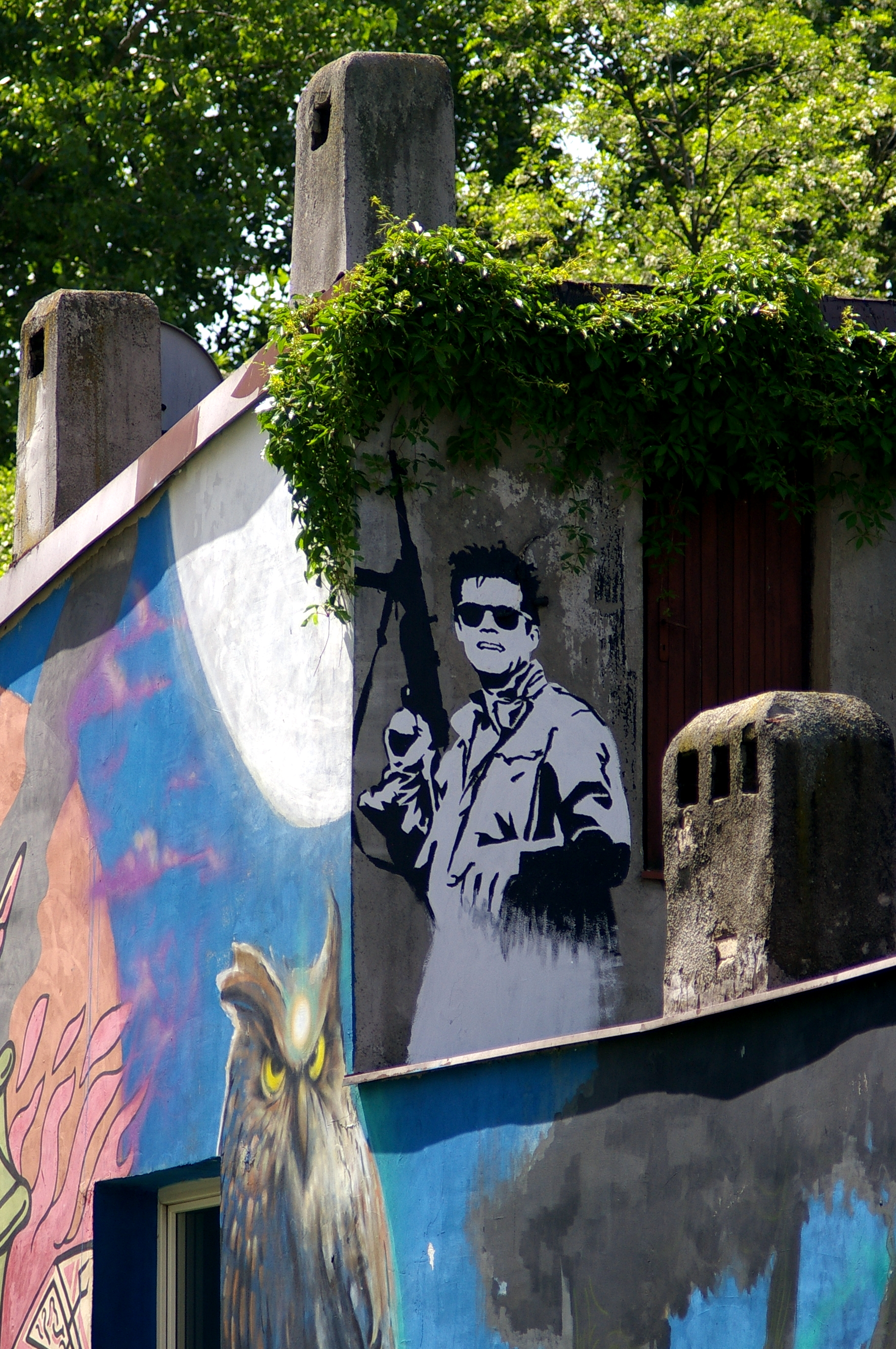 Mural depicting Zbigniew Cybulski as Maciek Chełmicki in Andrzej Wajda Ashes and Diamonds film, Srebrzyńska 21 st., Łódź, Poland